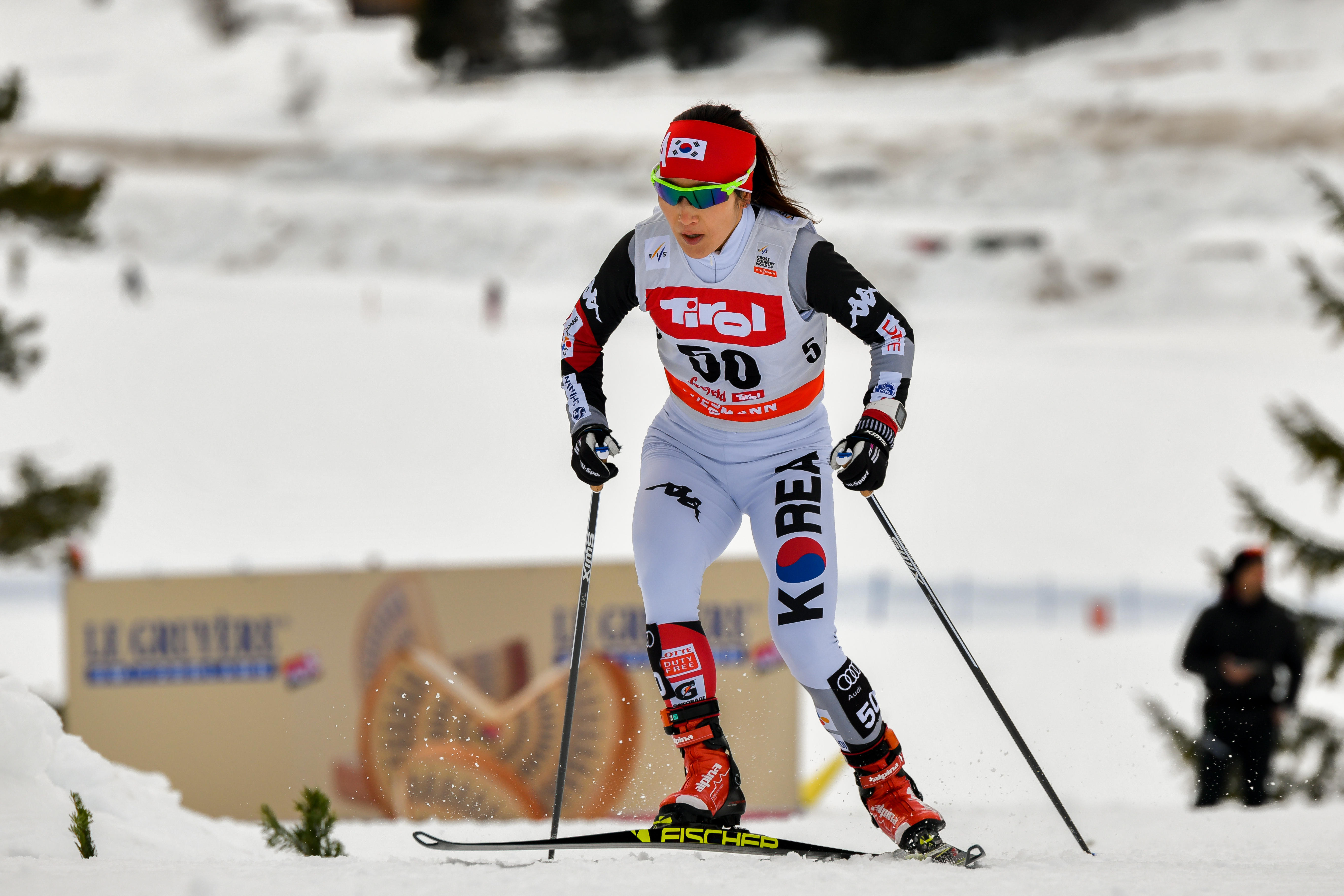 Seefeld-Triple 2018, third day January 28th. Picture shows LEE Chaewon (KOR).